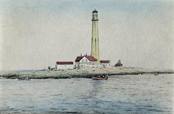 Boon Island Lighthouse, off York, ME; from a 1911 postcard. It was built in 1854-1855.